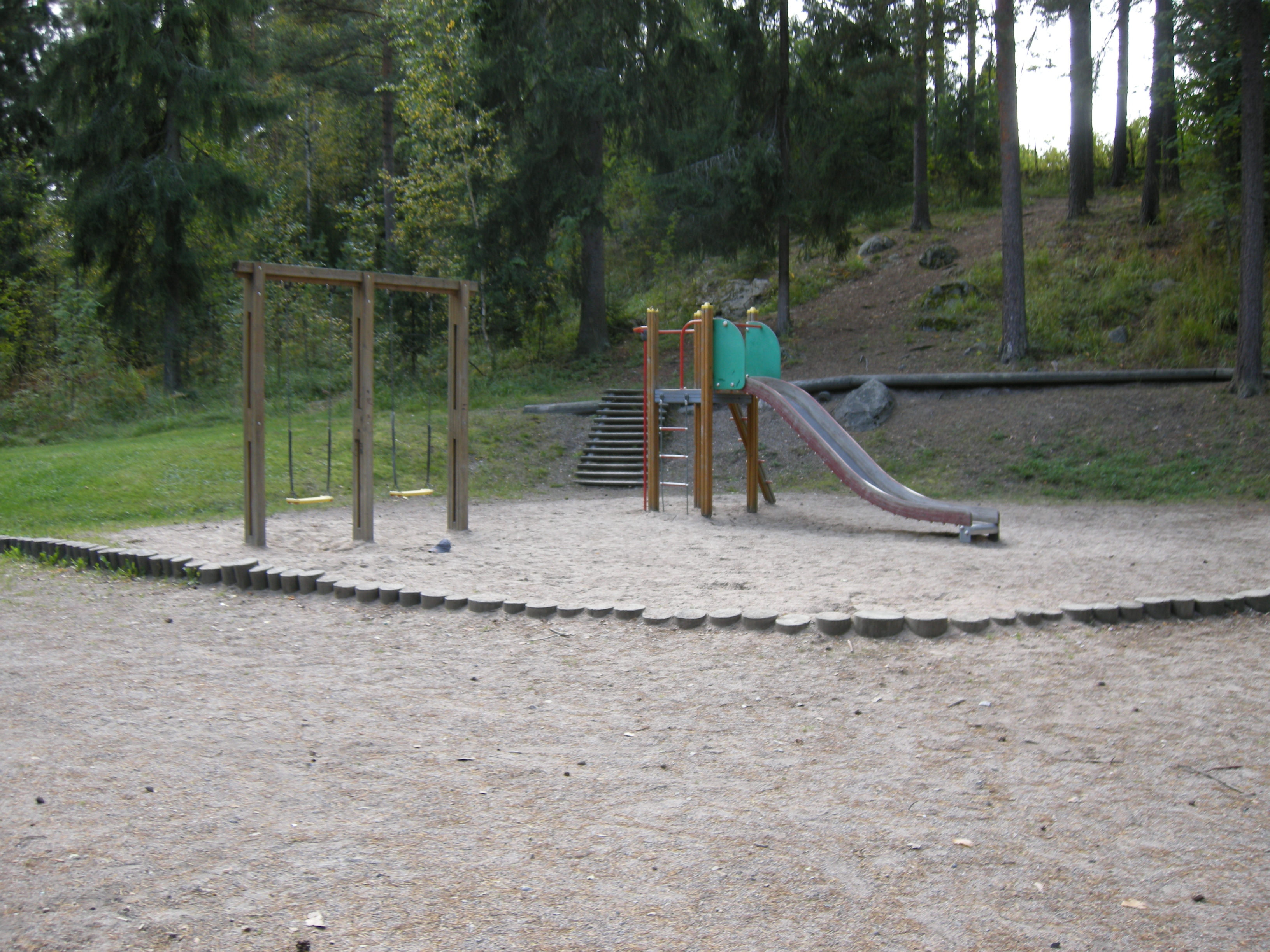 Traditional Finnish playingpark.